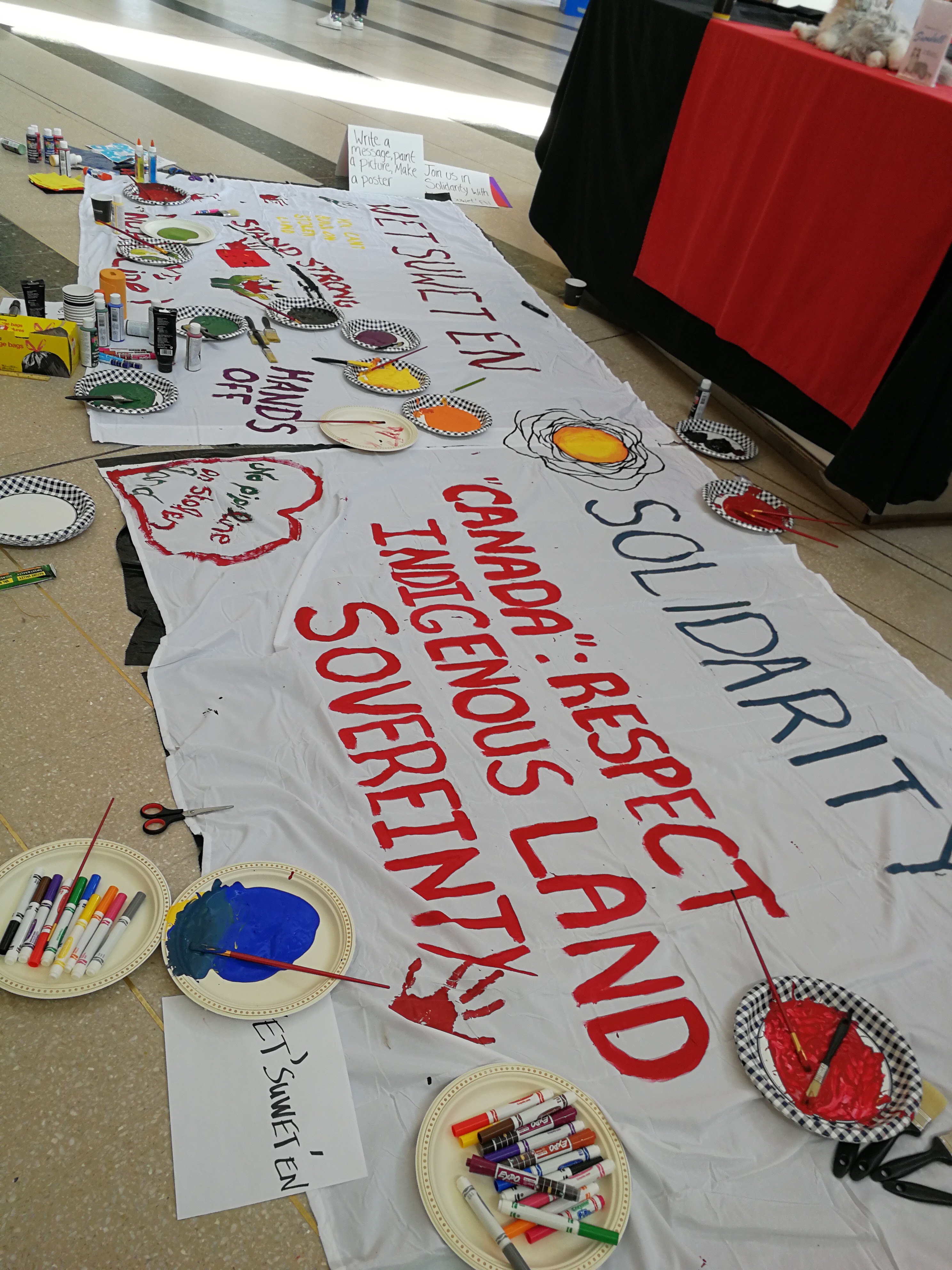 Image of banner created by participants of a Wet'suwet'en Solidarity event at Vari Hall, March 11, 2020.